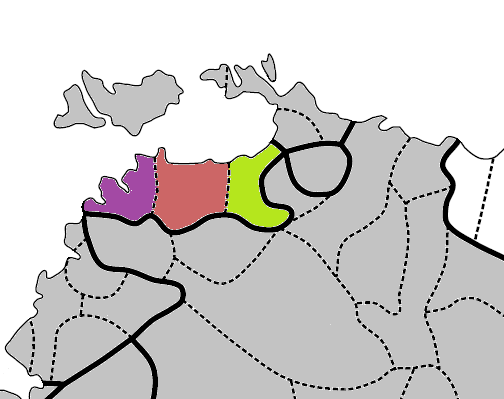 Darwin Region languages (closeup). From west to east they are: Laragiya, Limilngan, and Umbugarlic.